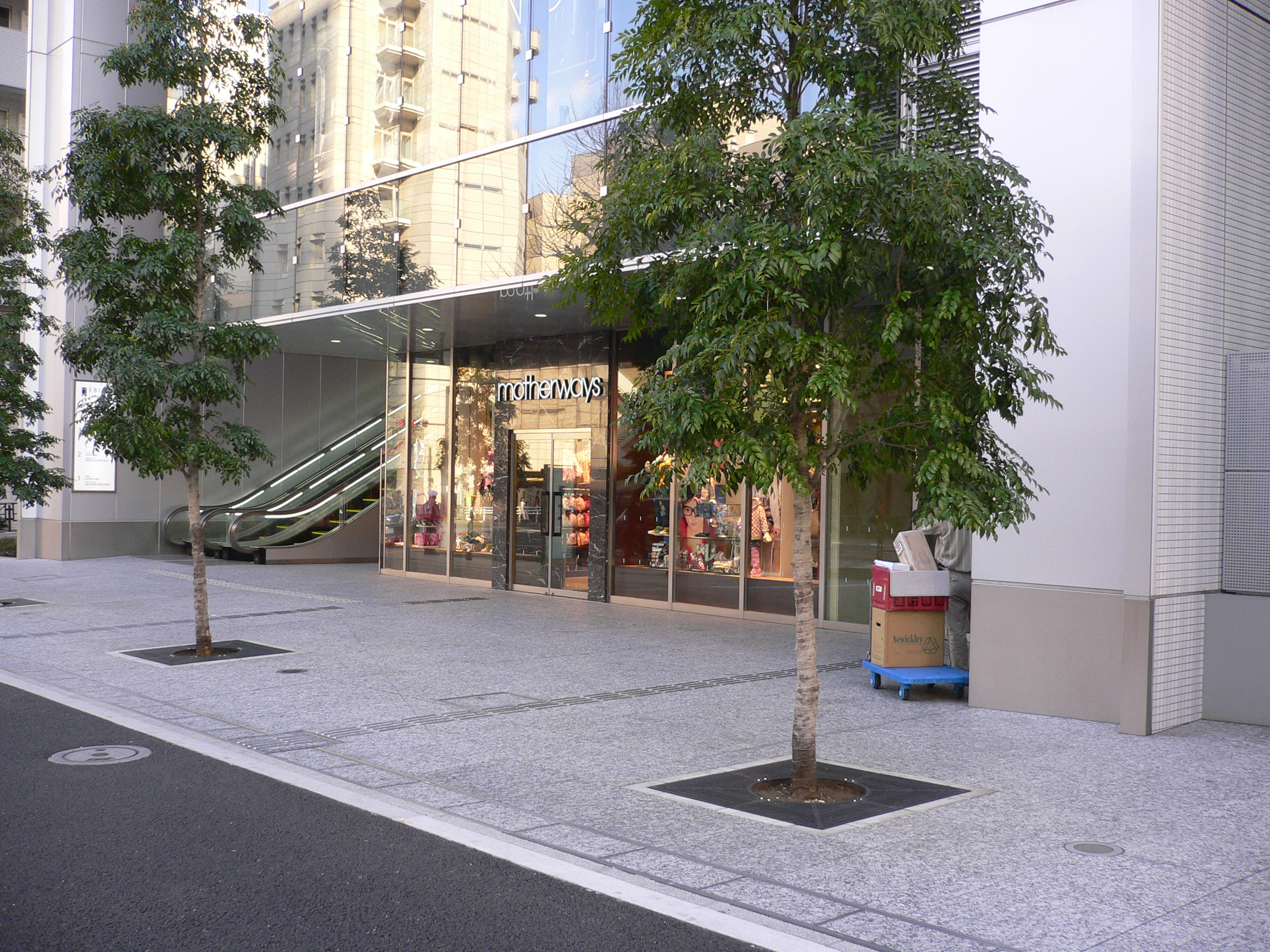 Motherways shop in Ebisu, Tokyo, Japan.